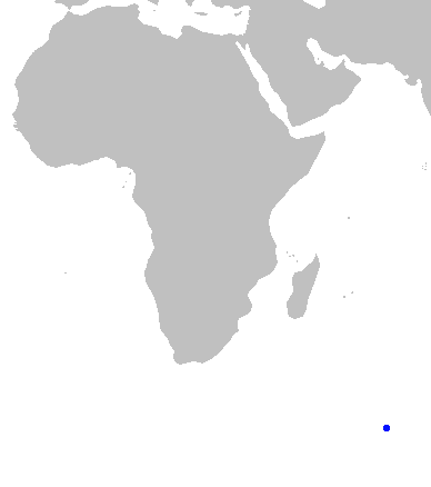 Distribution of Commerson's dolphin near Kerguelen Island. Source: Reyes, Laura M. Cetaceans of Central Patagonia, Argentina. Aquatic Mammals 2006. Derivative work of: File:BlankMap-World-noborders.png.